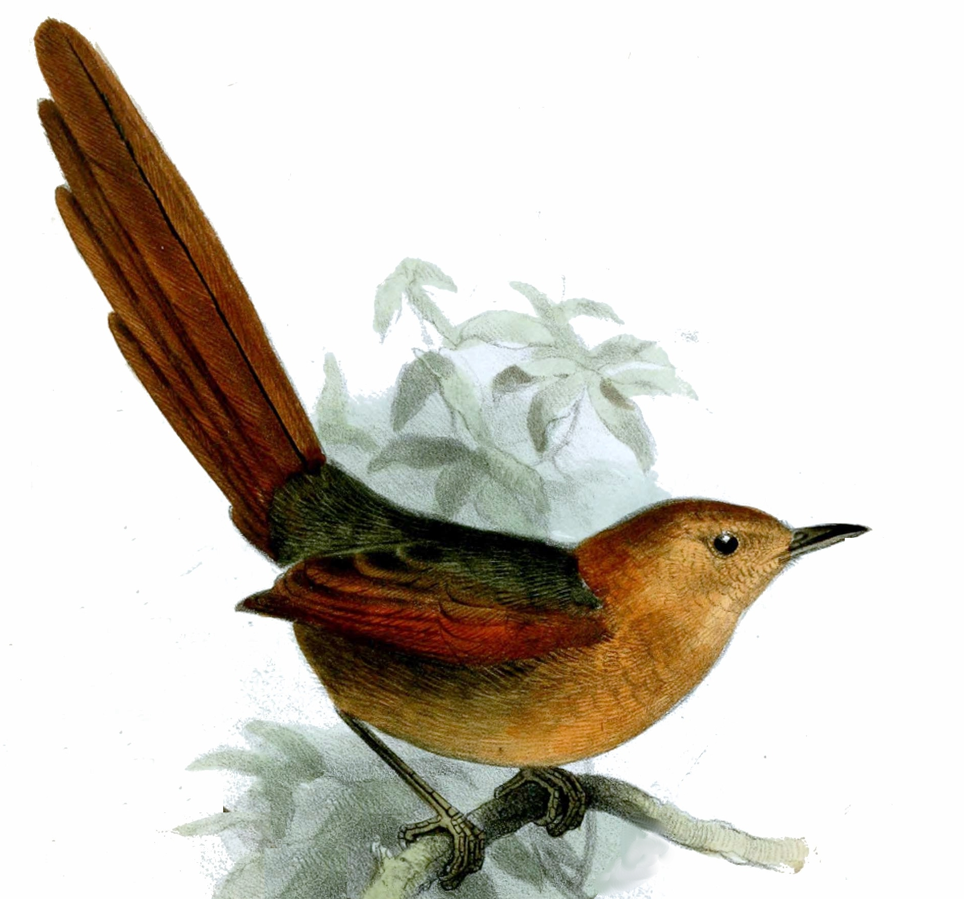 Rusty-headed Spinetail (above); Mouse-colored Thistletail (below)